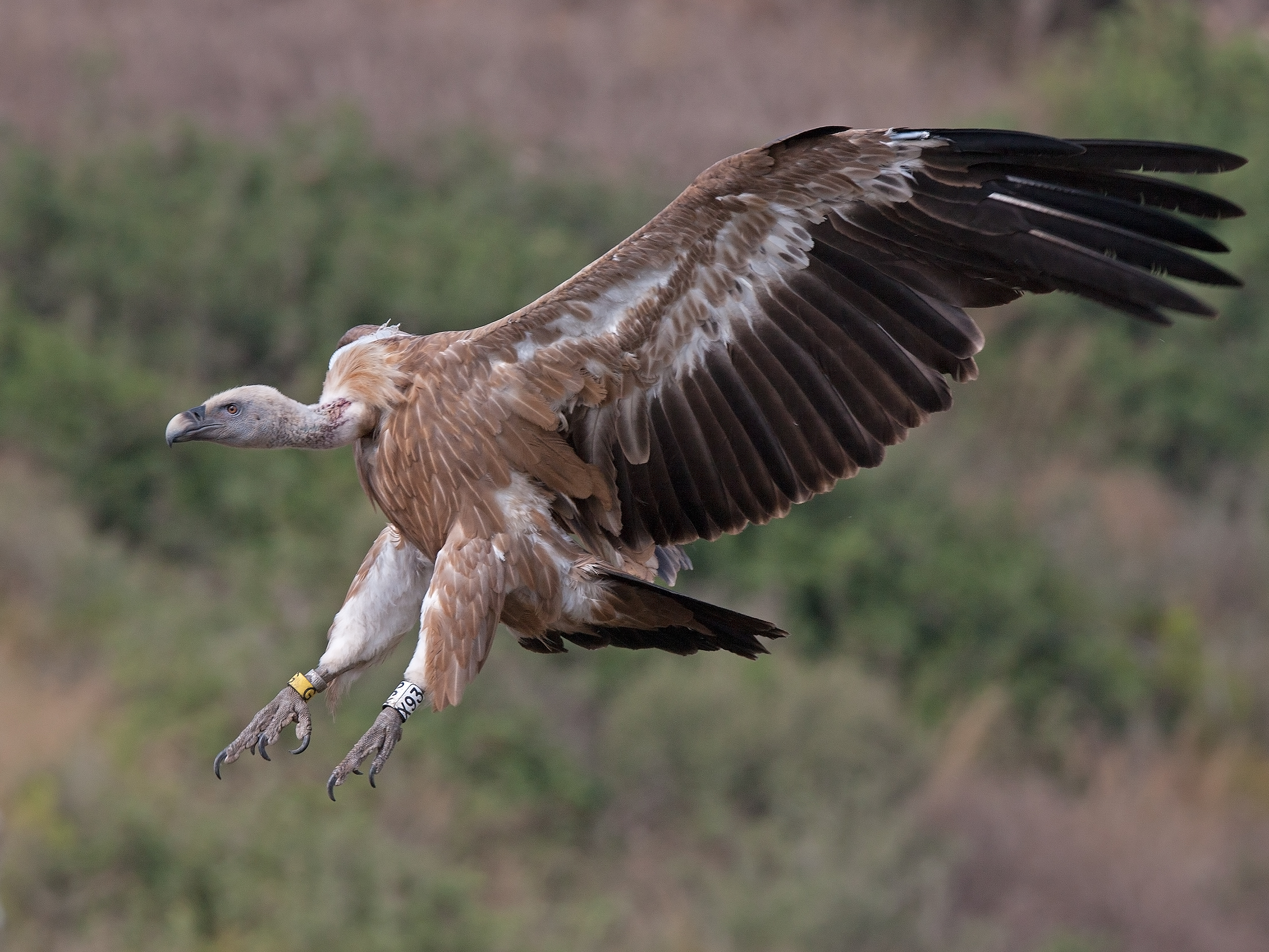 Griffon vulture preparing to land. Shot at Hai-Bar Carmel nature reserve, Israel.